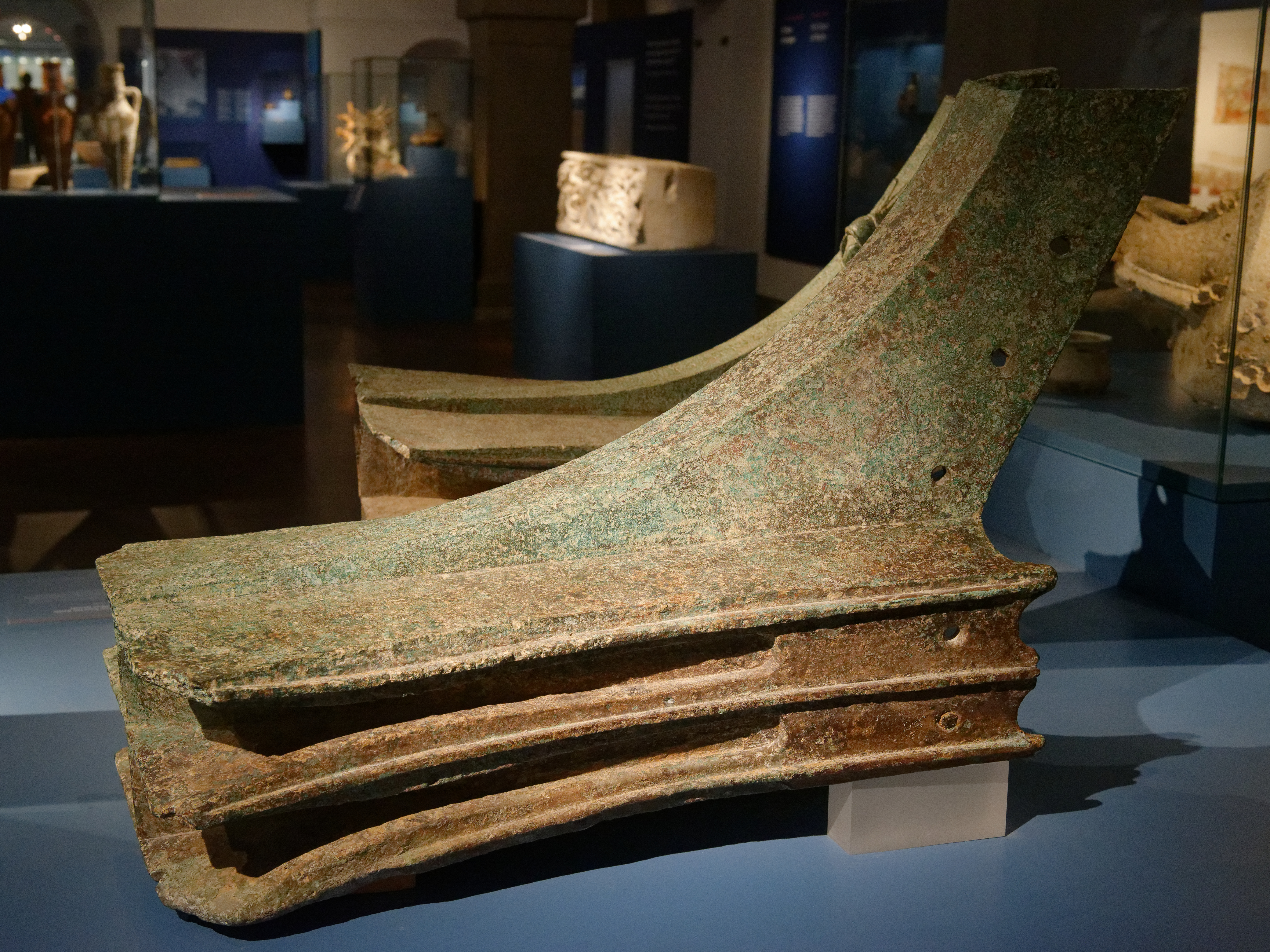 Battering ram found in 2010 at a depth of 81 metres in the area of the battle of the Aegadian islands, fought on 10 March 241 BC, during the First Punic War. Carved inscription in Punic letters: “May this [ram] be directed against the ship with the wrath of Ba'al, who makes it possible to reach the mark, may this go and strike the hewn shield in the centre.“